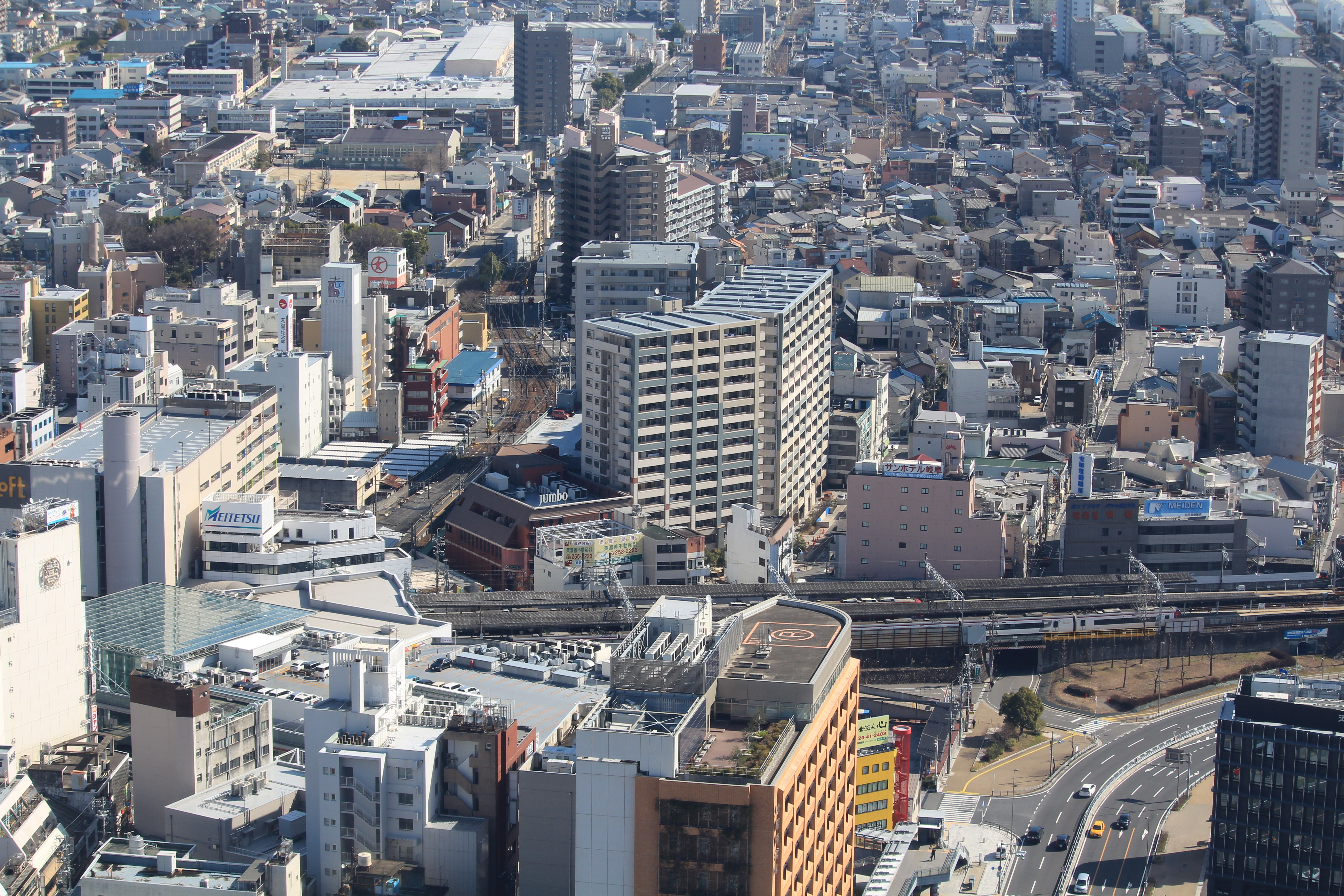 Meitetsu Gifu Station seen from Gifu City Tower 43 in Gifu city, Gifu prefecture, Japan Canon EOS Kiss X7i